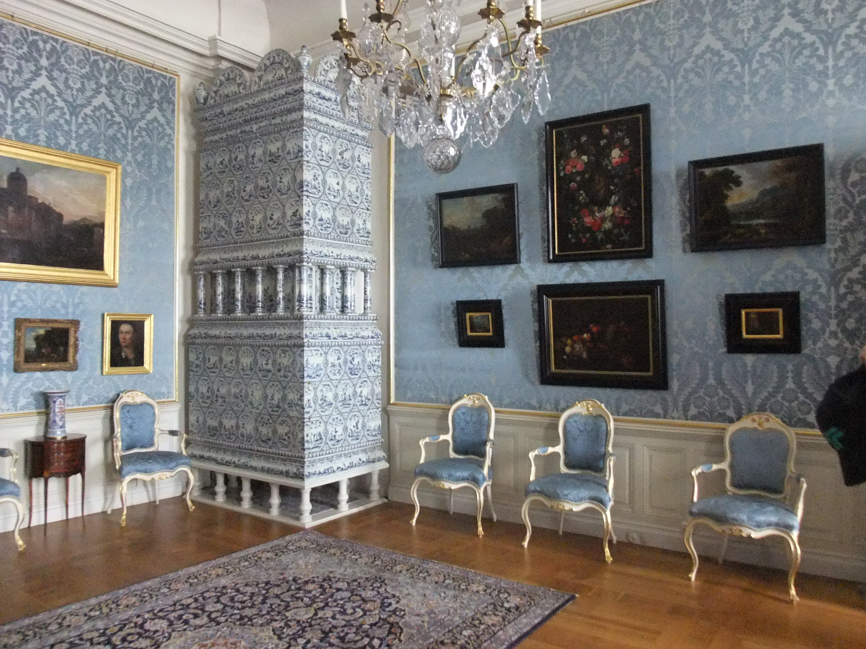 Interior of Rundale Palace, Latvia